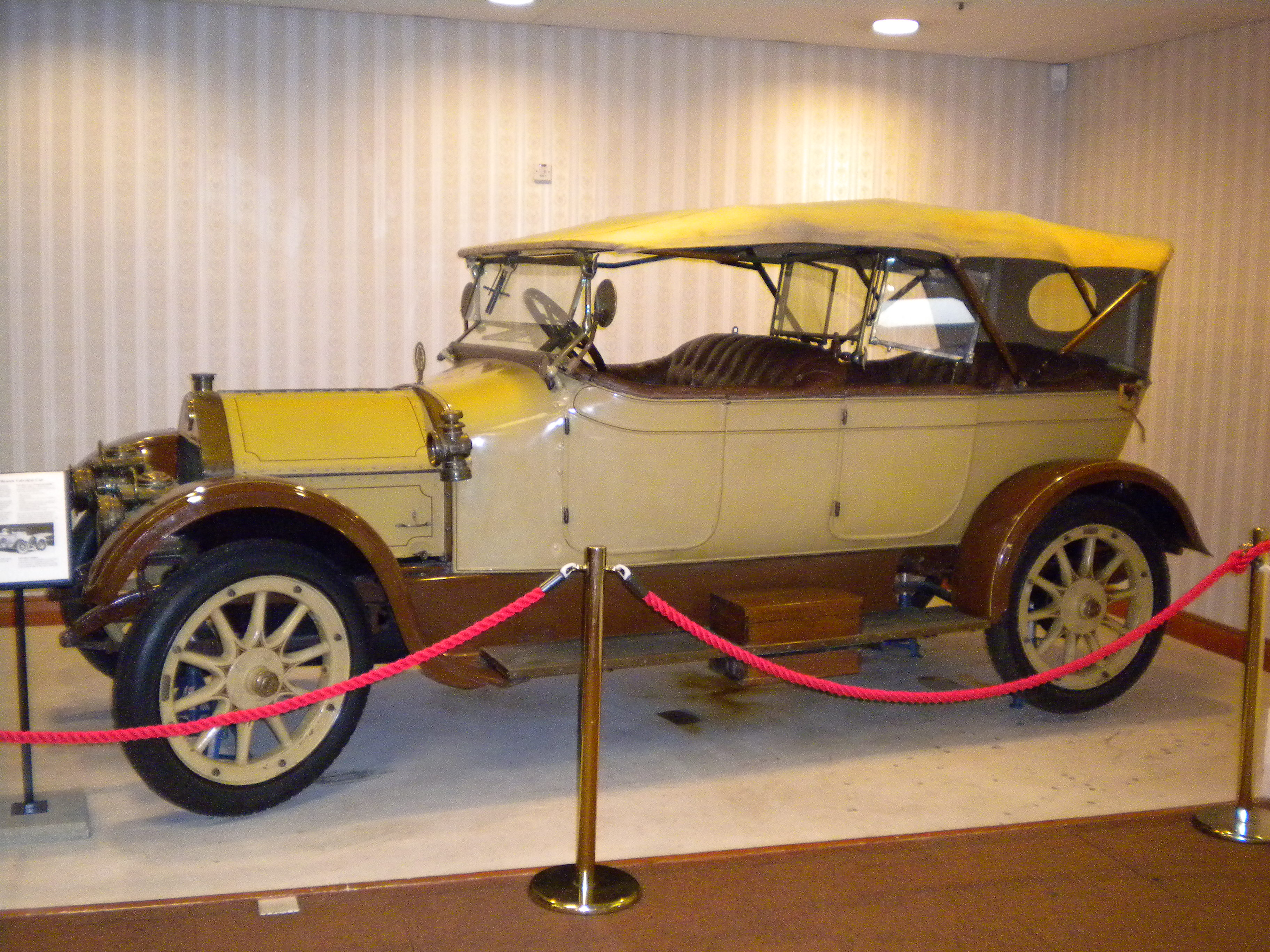 A rare Huddersfield manufactured car, the Valveless, on display at Tolson Museum, Huddersfield, West Yorkshire, England.